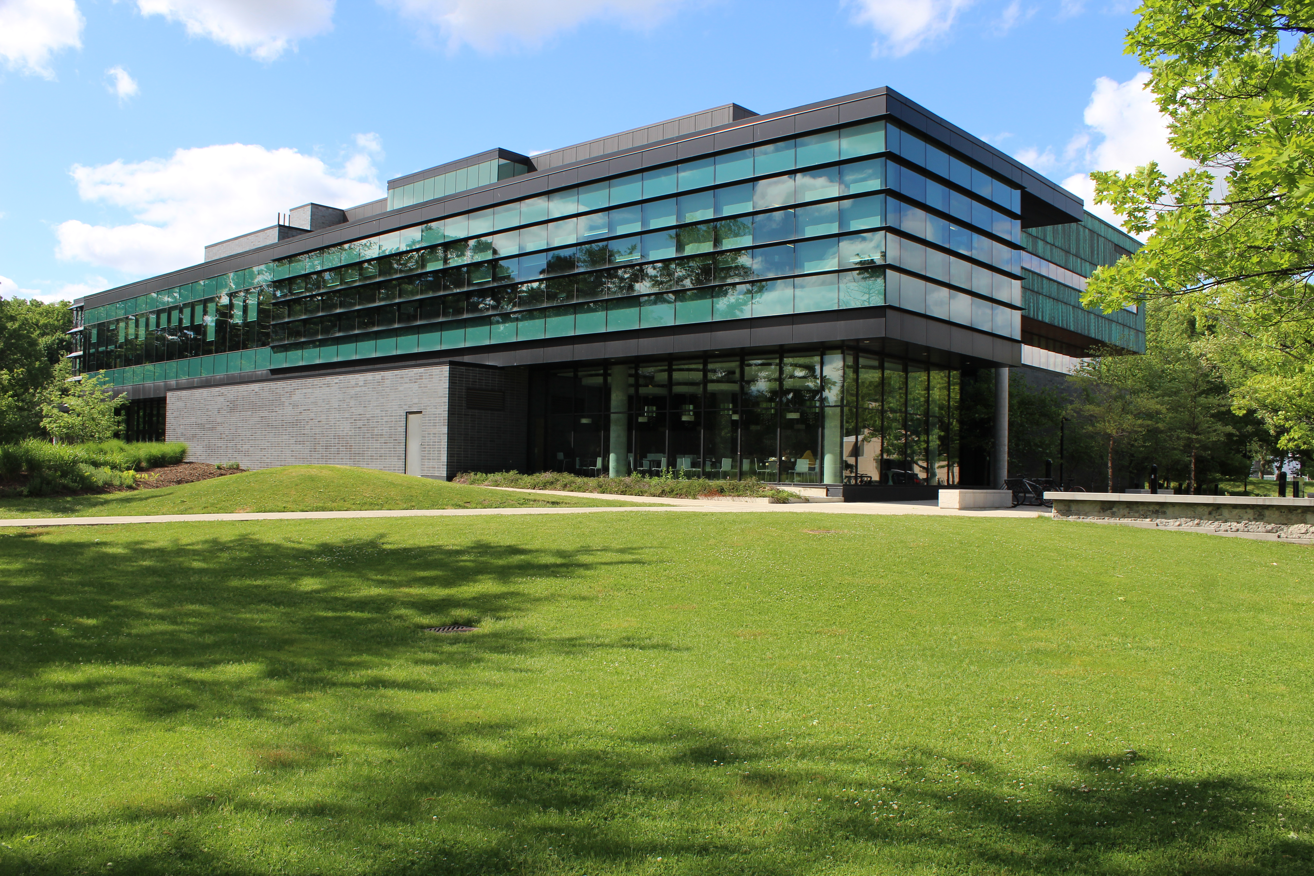 Instructional Centre. View from south.